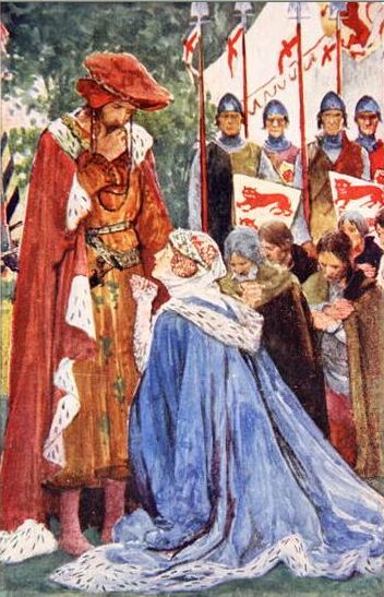 Queen Philippa of Hainault (1314-69) begging her husband, Edward III (1312-77) to spare the lives of six burghers in 1347